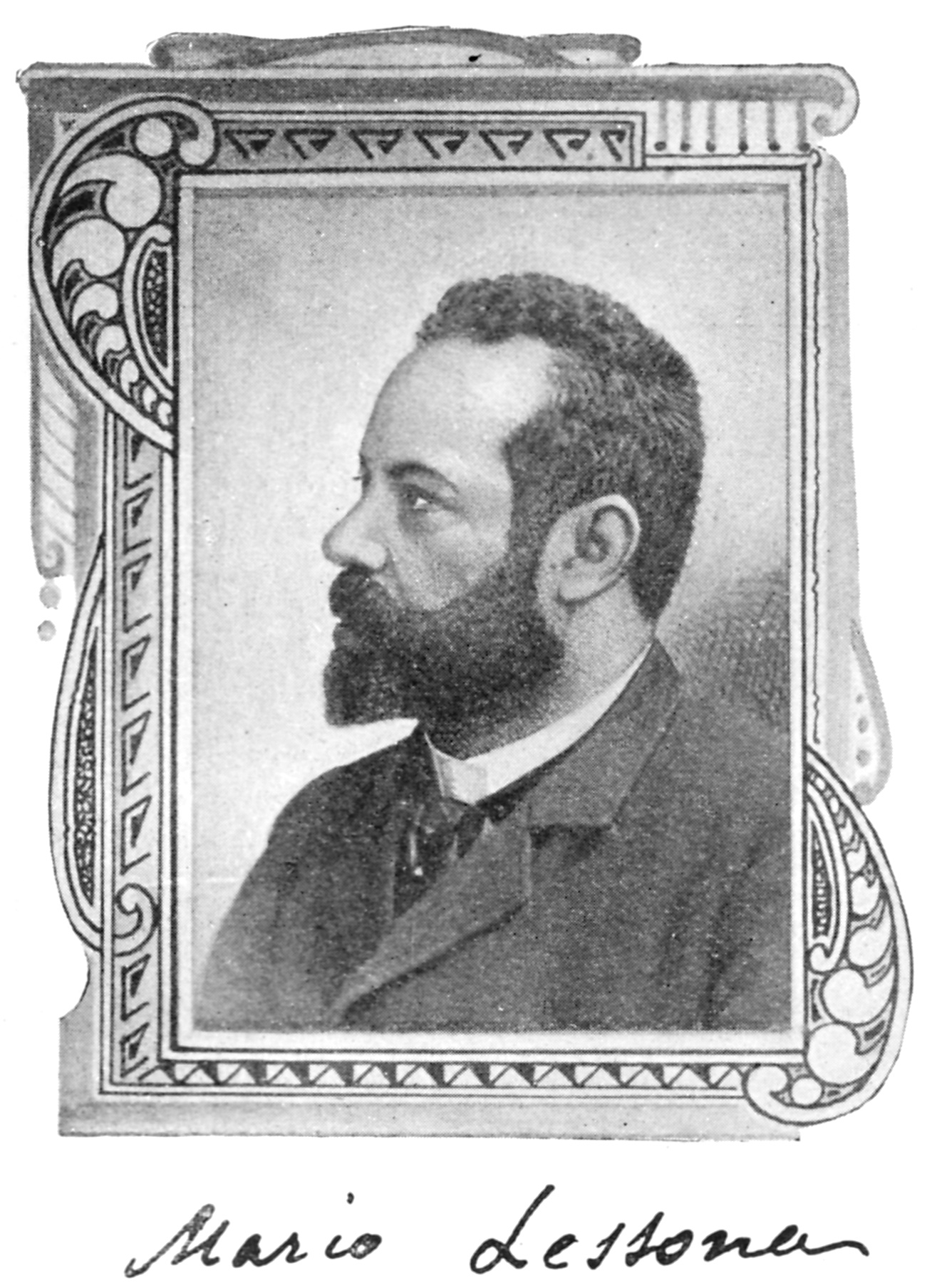 Portrait and signature of Mario Lessona, the zoologist, appearing on page 151 of Taylor, J.W. 1904. Monograph of the land and freshwater Mollusca of the British Isles. Part 10. Leeds, Taylor Brothers